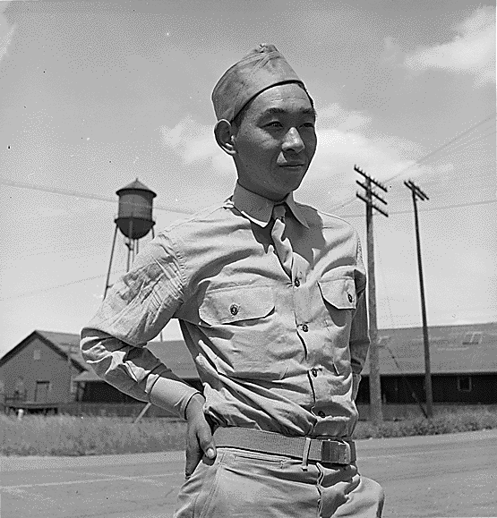 Florin, California. This American soldier of Japanese ancestry is shown at the railroad station of a small town in an agricultural community. He and nine other service men of Japanese ancestry received furloughs to enable them to come home to assist their families get ready for evacuation from their west coast homes. He is an older son, which, in the traditional Japanese family structure, means that much responsibility for their welfare depends upon him. He is the only American citizen in their family.